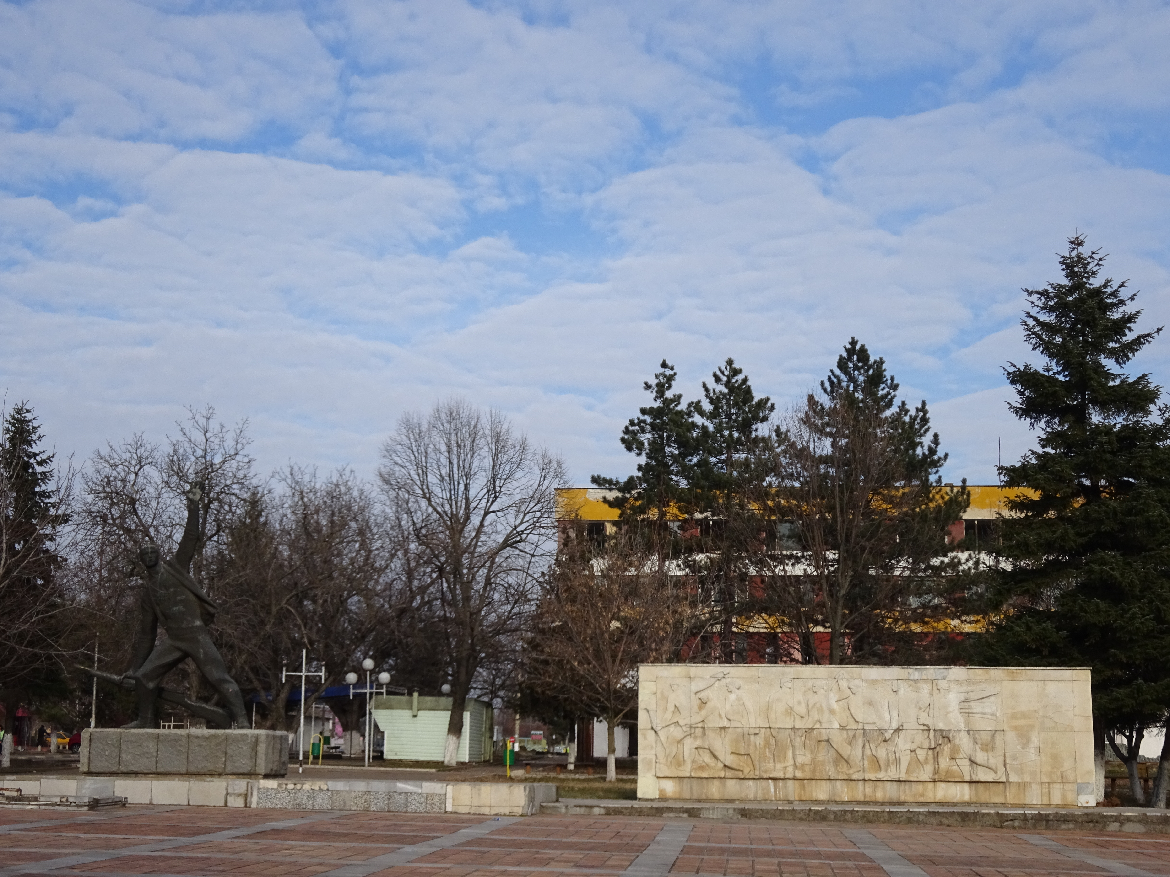 село Гложене, Козлодуй